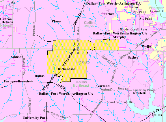 Map of Richardson, Texas, United States